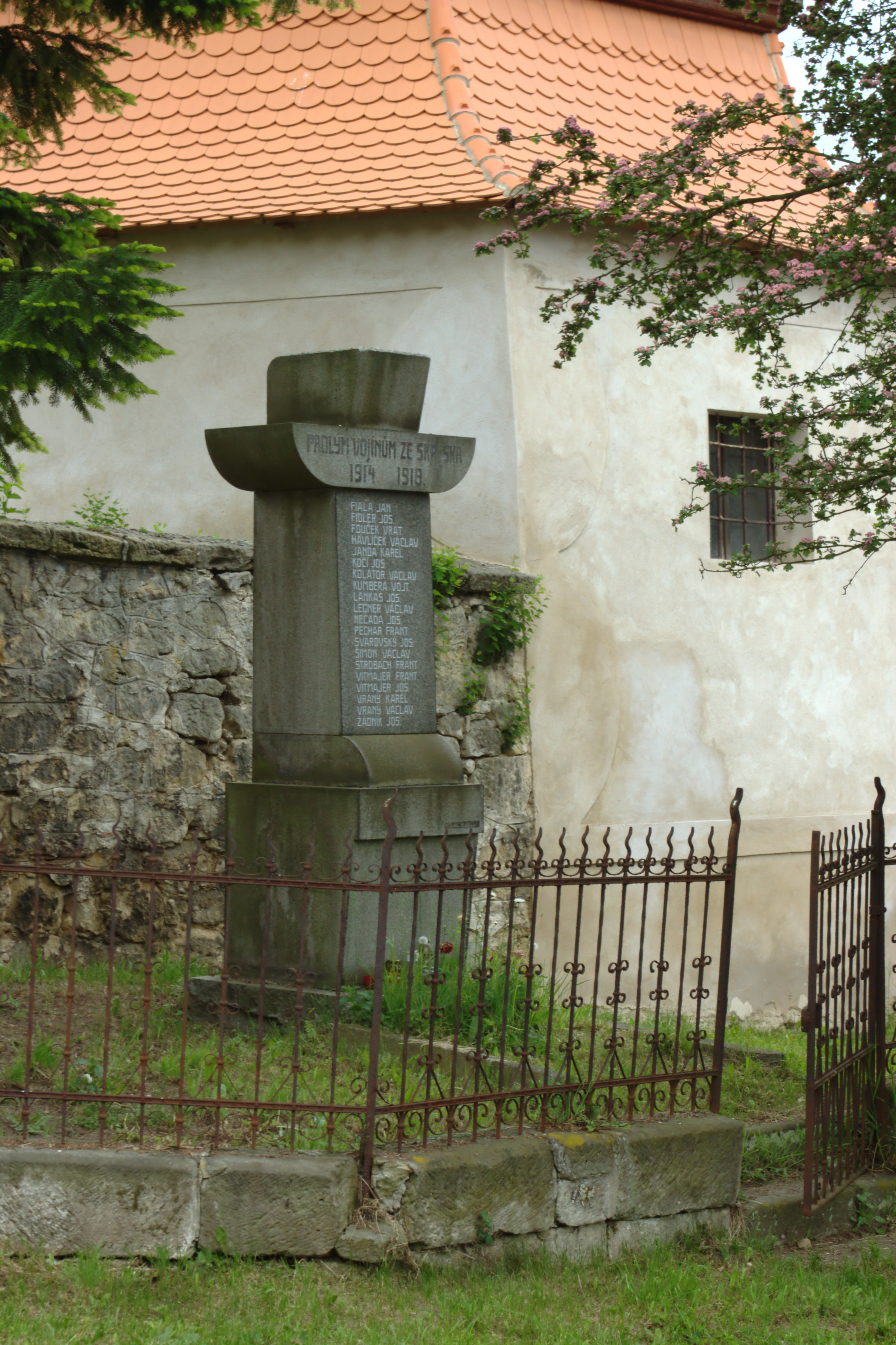 A memorial to war victims in the town of Skalsko, Central Bohemian Region, CZ